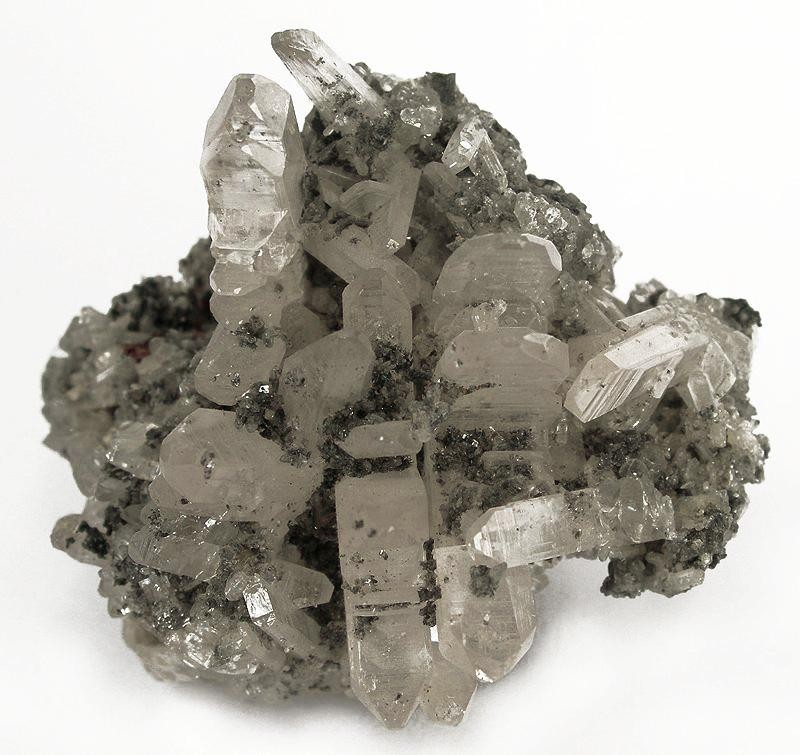 Cerussite Locality: Bunker Hill Mine (Tyler; Stemwinder; Bunker Hill and Sullivan; Bunker Chance Mine), Bunker Hill Properties, Kellogg, Coeur d'Alene District, Shoshone County, Idaho, USA (Locality at ) Size: 5.0 x 4.0 x 3.3 cm. This historic specimen is from the 9th level of the Bunker Hill, which had long ago been mined out by the early 1900s but was still accessible to collectors who knew their way around when this mine itself was accessible. A local collector went in and found this, he related, in the 1960s. It is an unusually aesthetic and display-quality specimen for a Bunker Hill cerussite, more reminiscent of material from Tsumeb or Tiger in Arizona than from anywhere else.